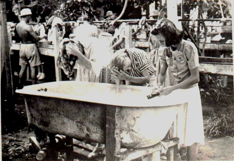 World War II. Women at Santo Tomas Internment Camp, Manila, washing their hair.